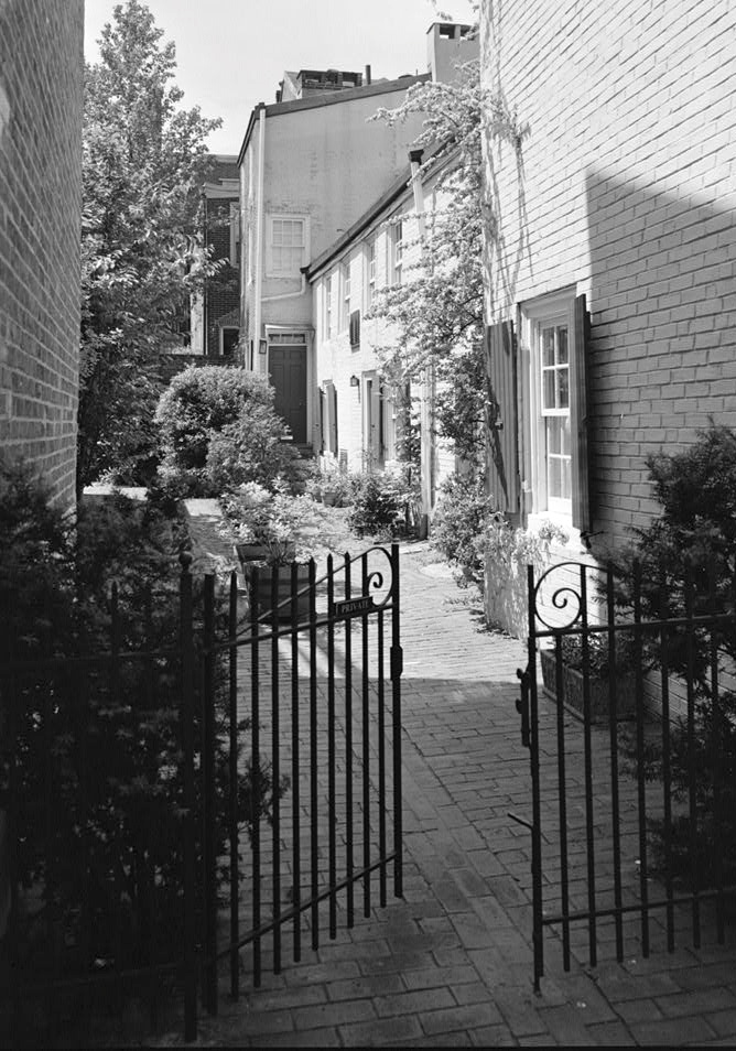 Drinkers Court at 236-238 Delancey Street, Philadelphia, On NRHP since 1971. HABS lablel: VIEW OF APARTMENTS AND GARDEN HABS PA,51-PHILA,303-5